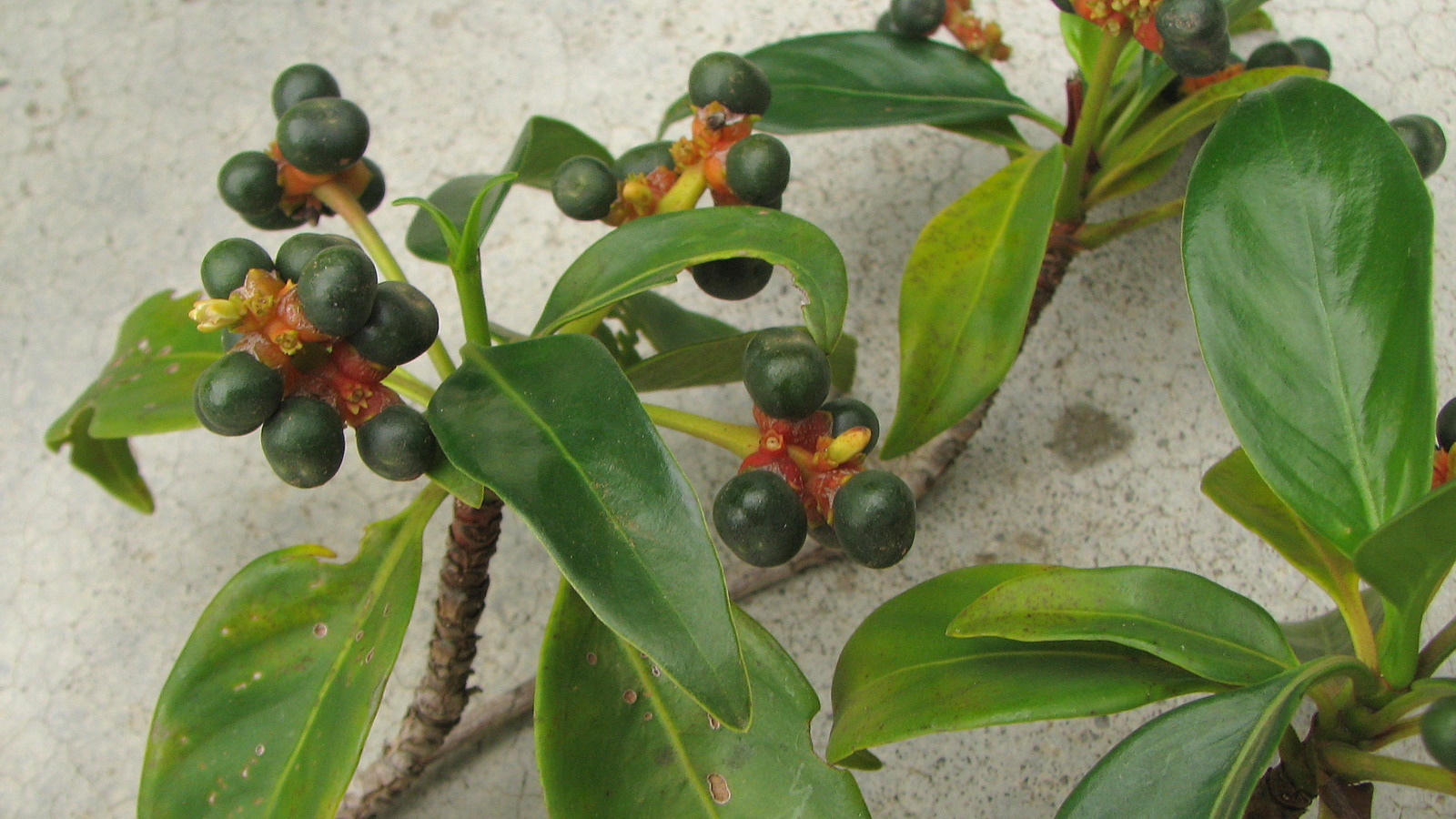 One of the few Rubiaceae with a superior ovary.